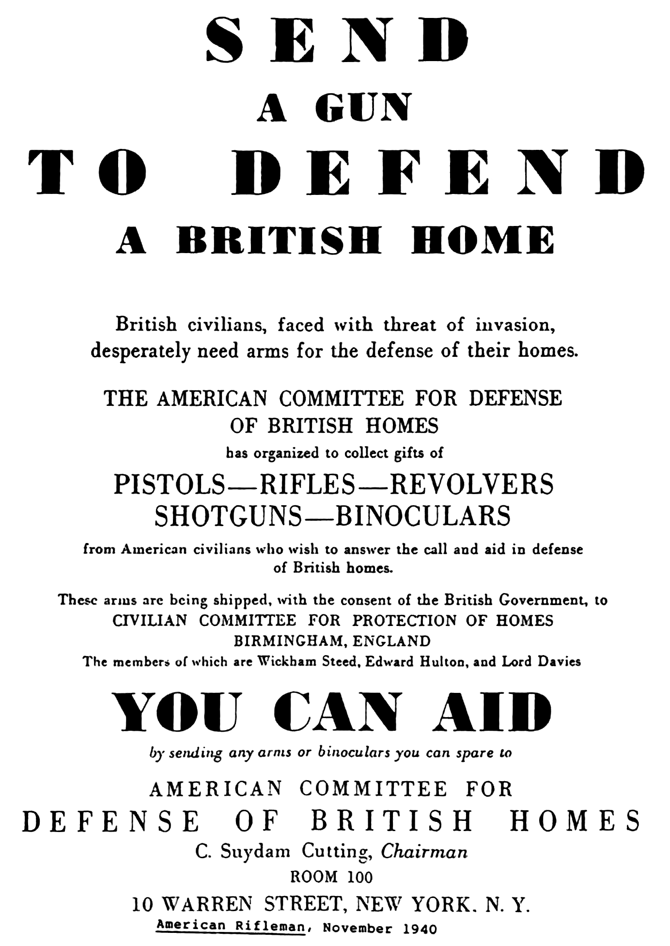 WW2 poster.